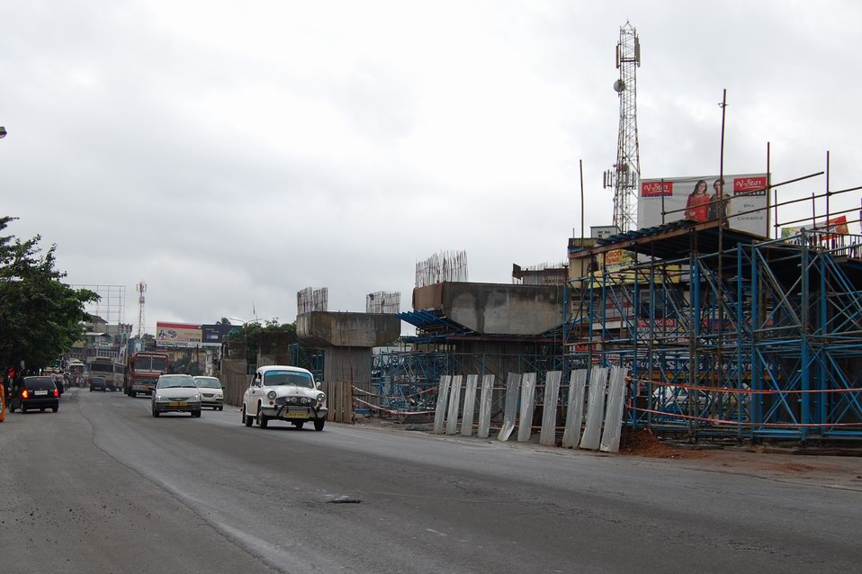 Chalakudy four-way construction